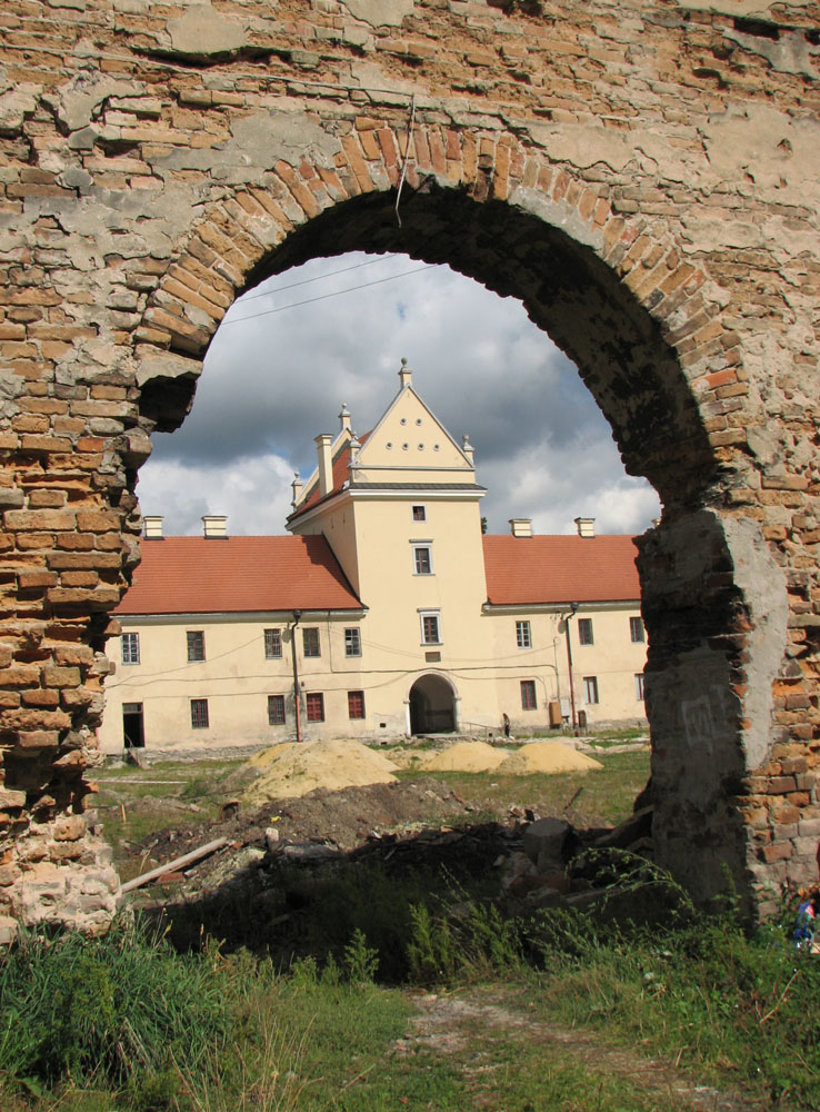 Inner yard of Zhovkva castle